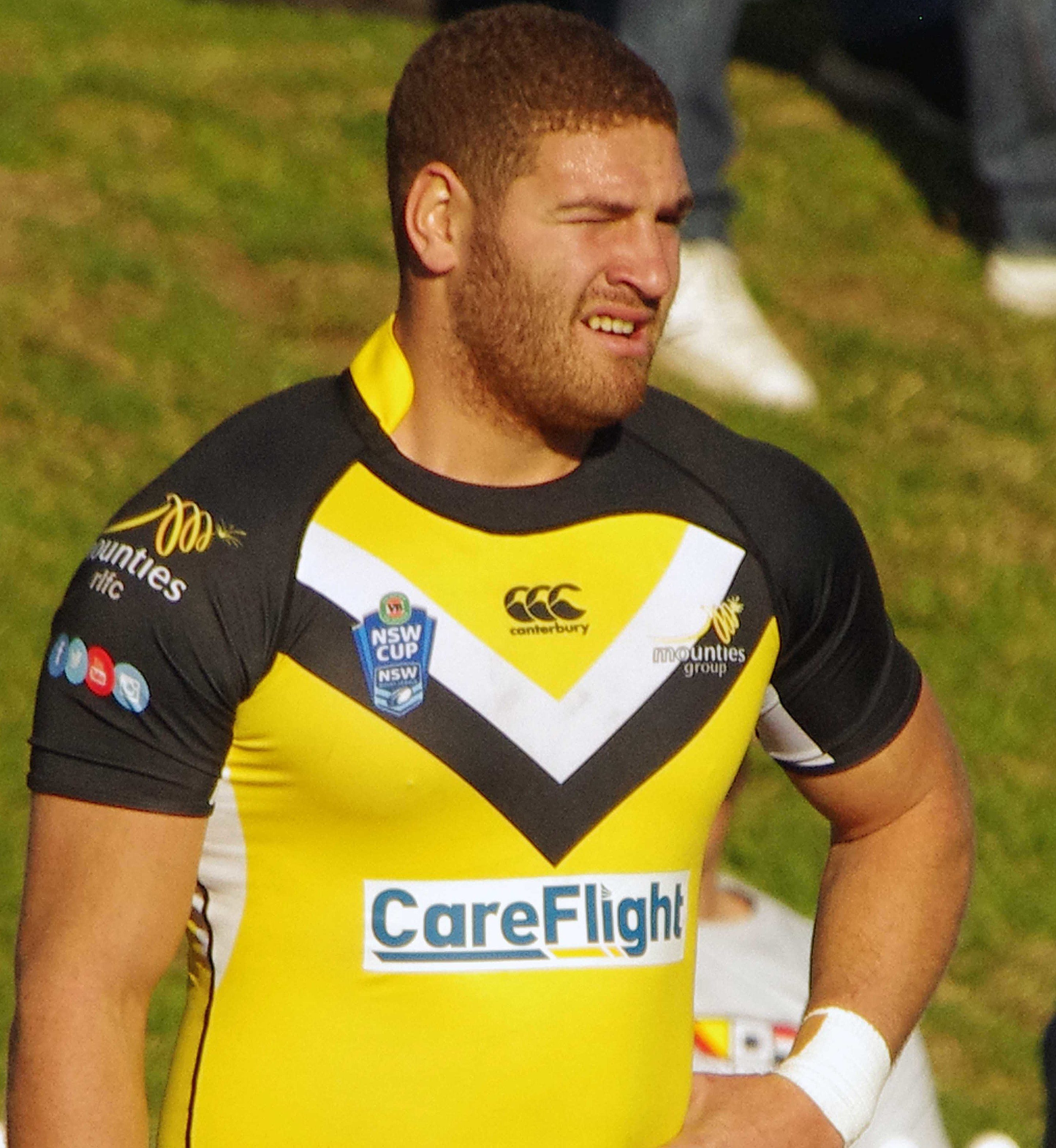 Brenko Lee